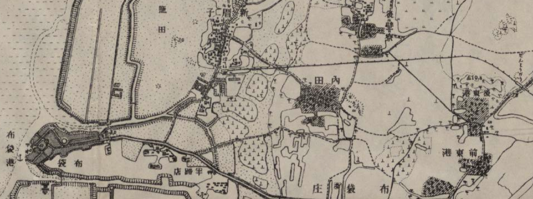 Railway Map of Hotei, Tainan-shu, Formosa(Taiwan), Japan